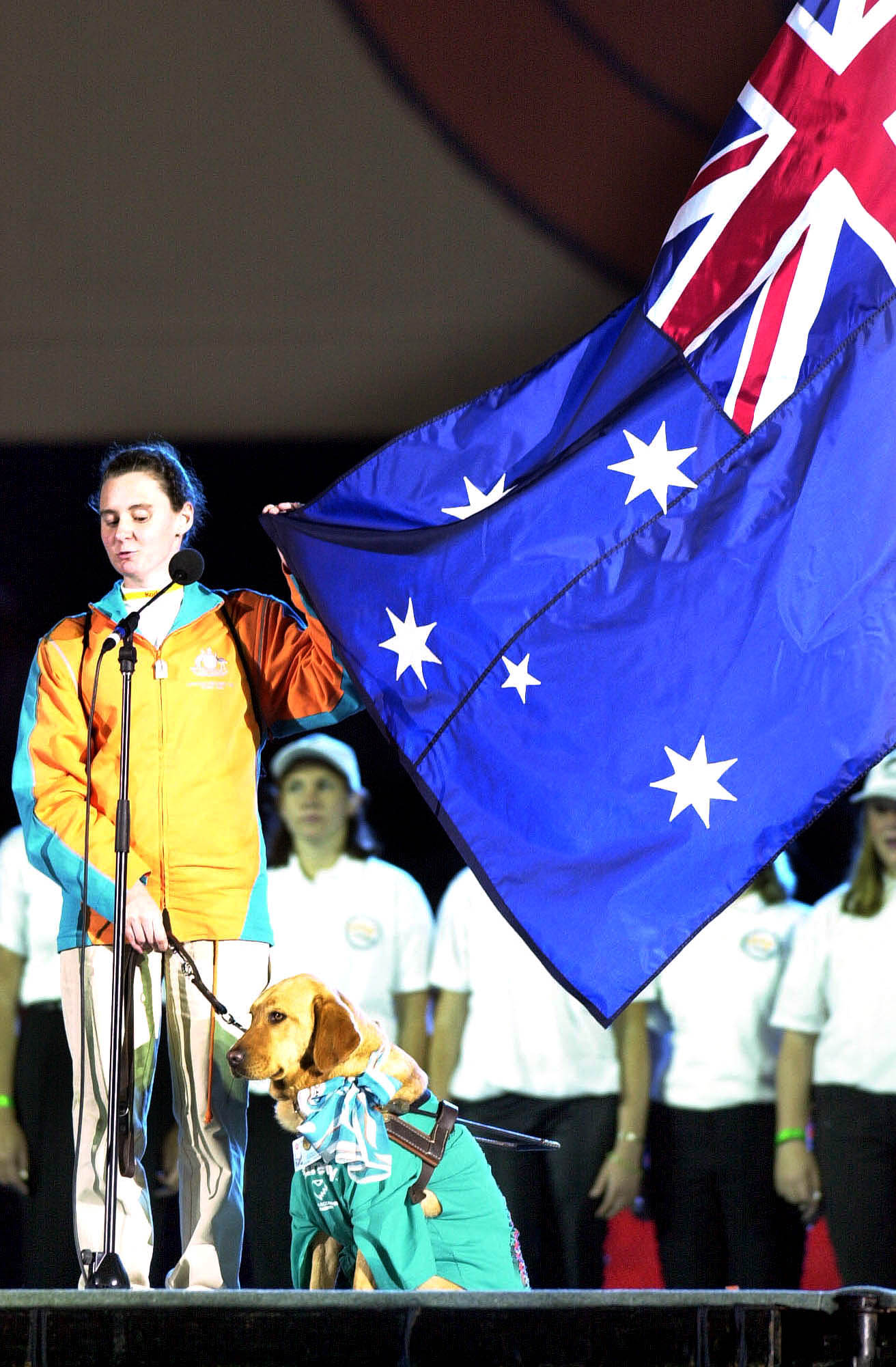 Australian swimmer Tracey Cross takes the official Athletes Oath at the Opening Ceremony of the 2000 Sydney Paralympic Games